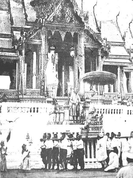 Photograph showing the investiture ceremony of Prince Chulalongkorn (on the palanquin) his father King Mongkut is standing in the pavillion, Grand Palace, Bangkok, Siam